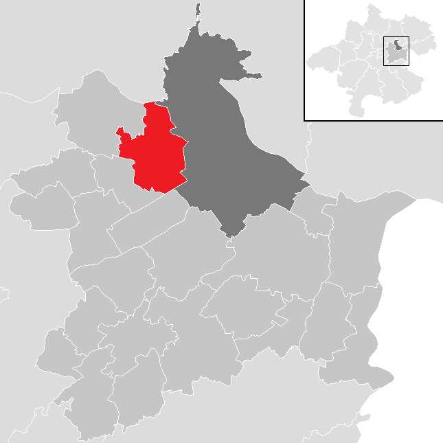 district Linz-Land